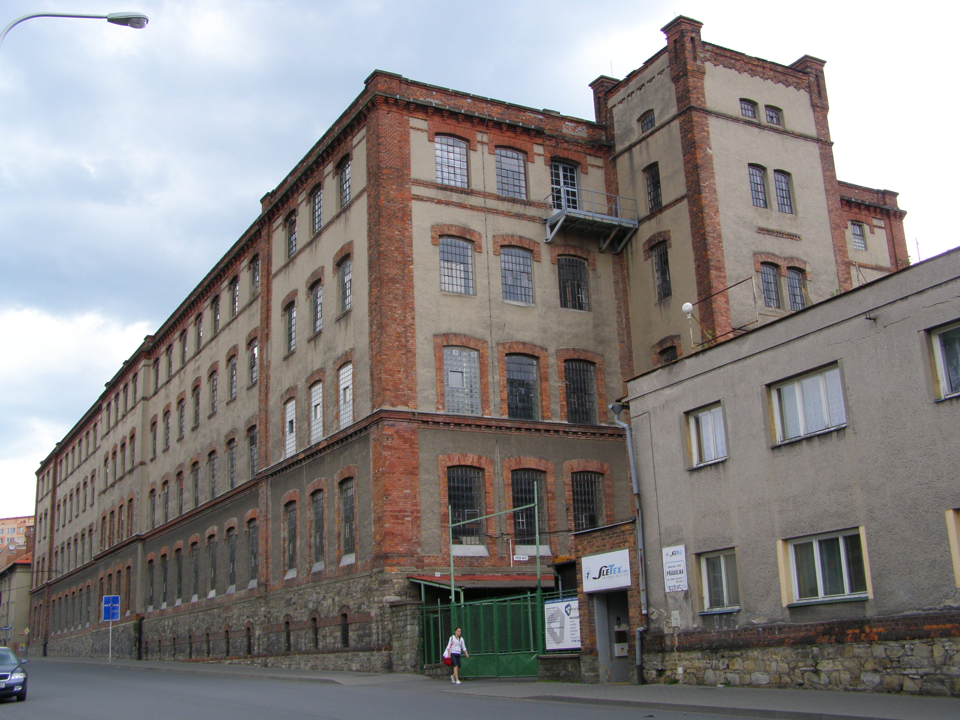 Frýdek-Místek, former Landsberger's and Neumanns' textile factory, later textile factory Slezan